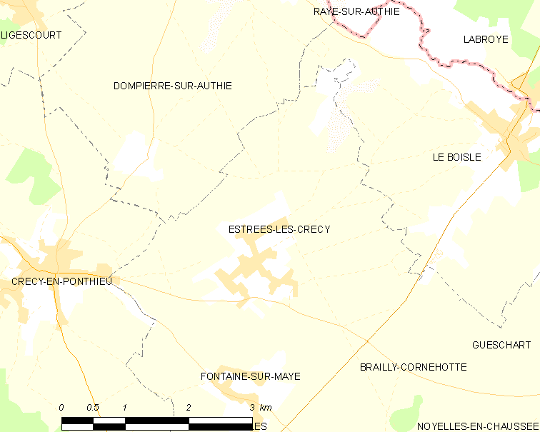 Map of French municipality Estrées-lès-Crécy